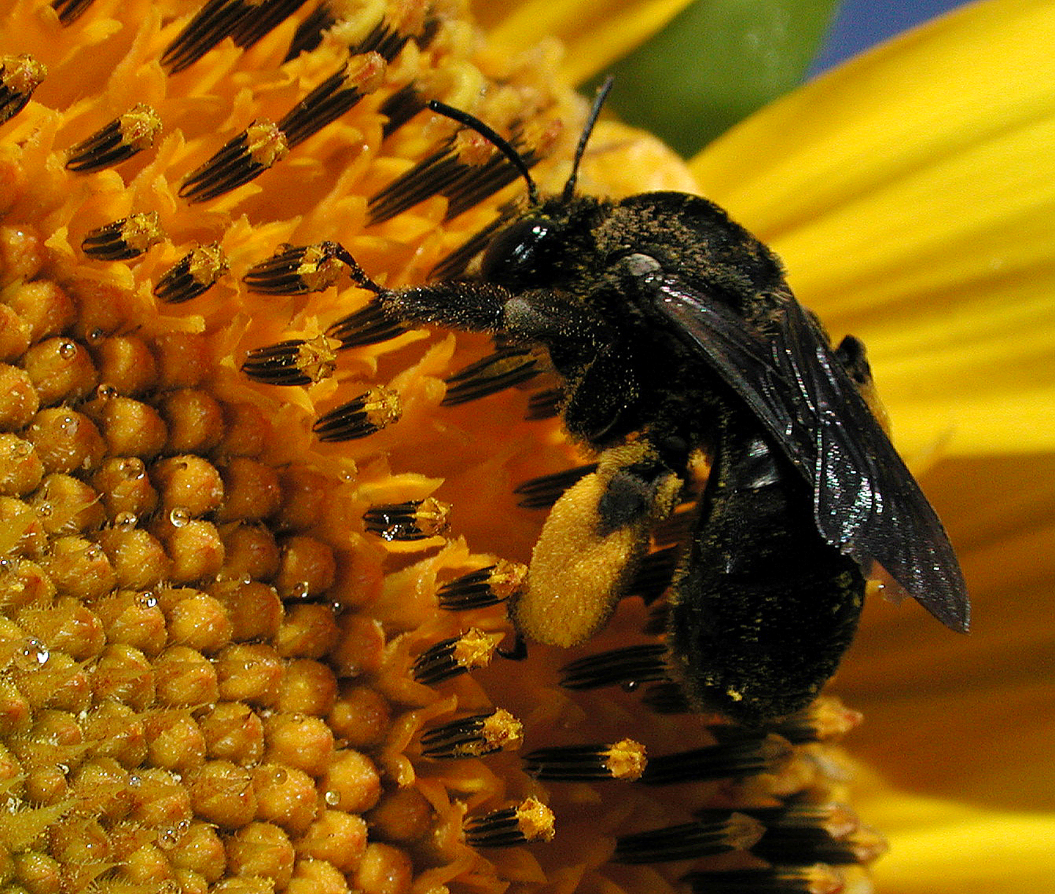 Scopae on bee, with sunflower pollen Pollinator 03:20, 3 May 2006 (UTC)